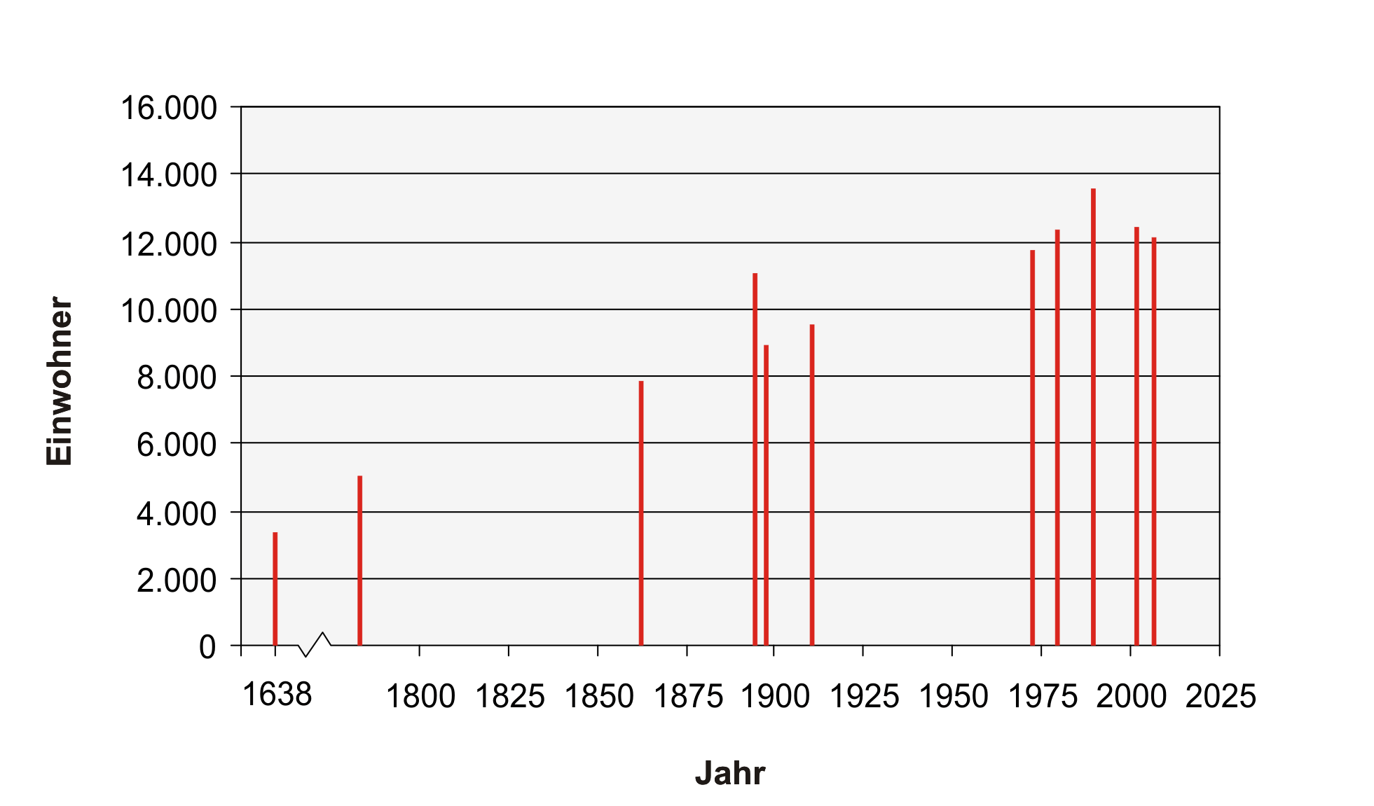 Description = Lochwyzja Population Source = own work, Skluesener Date = 09.12.2006 Author = Skluesener